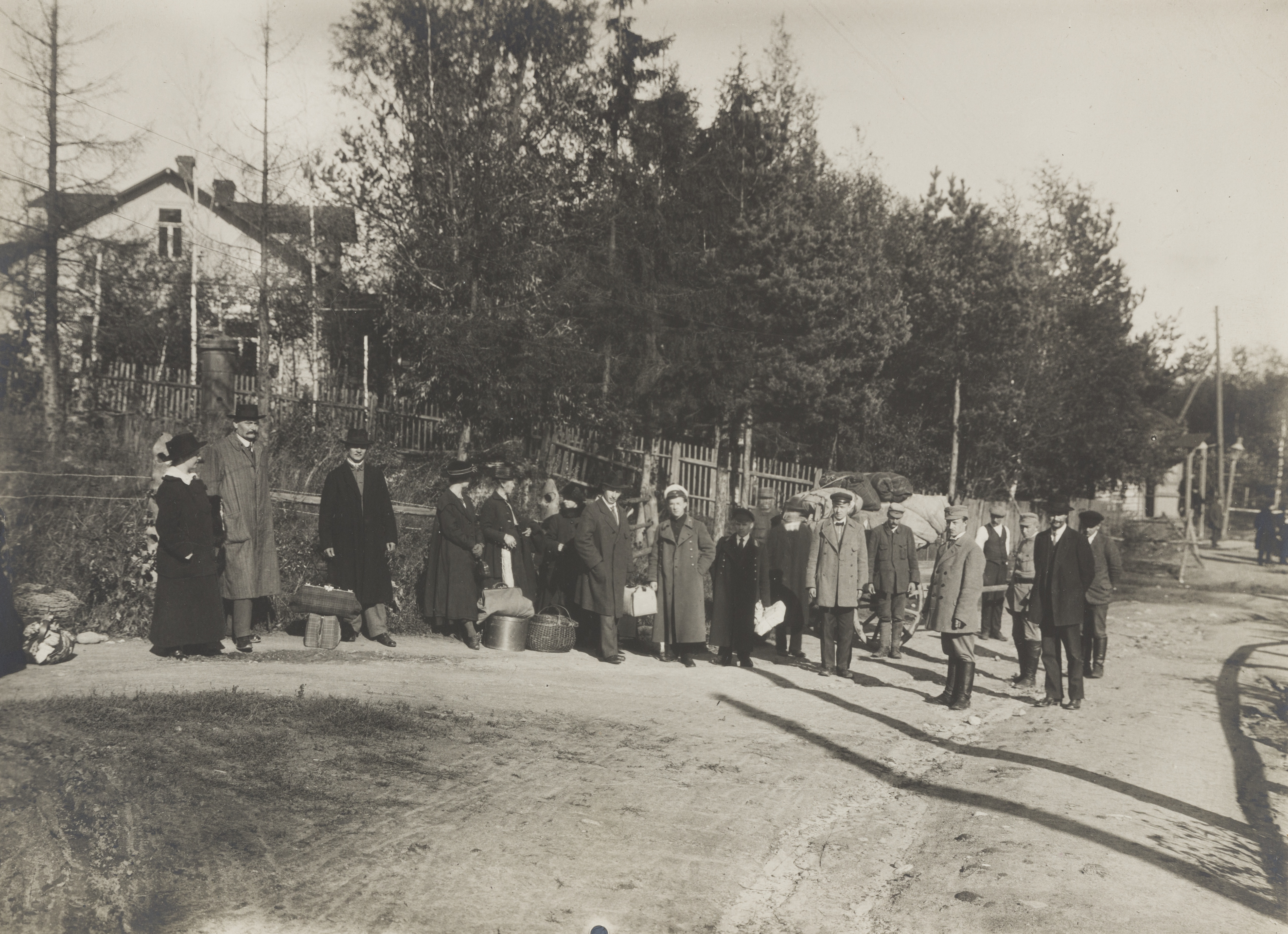 1918 Finnish Civil War. Russian refugees leaving Terijoki.